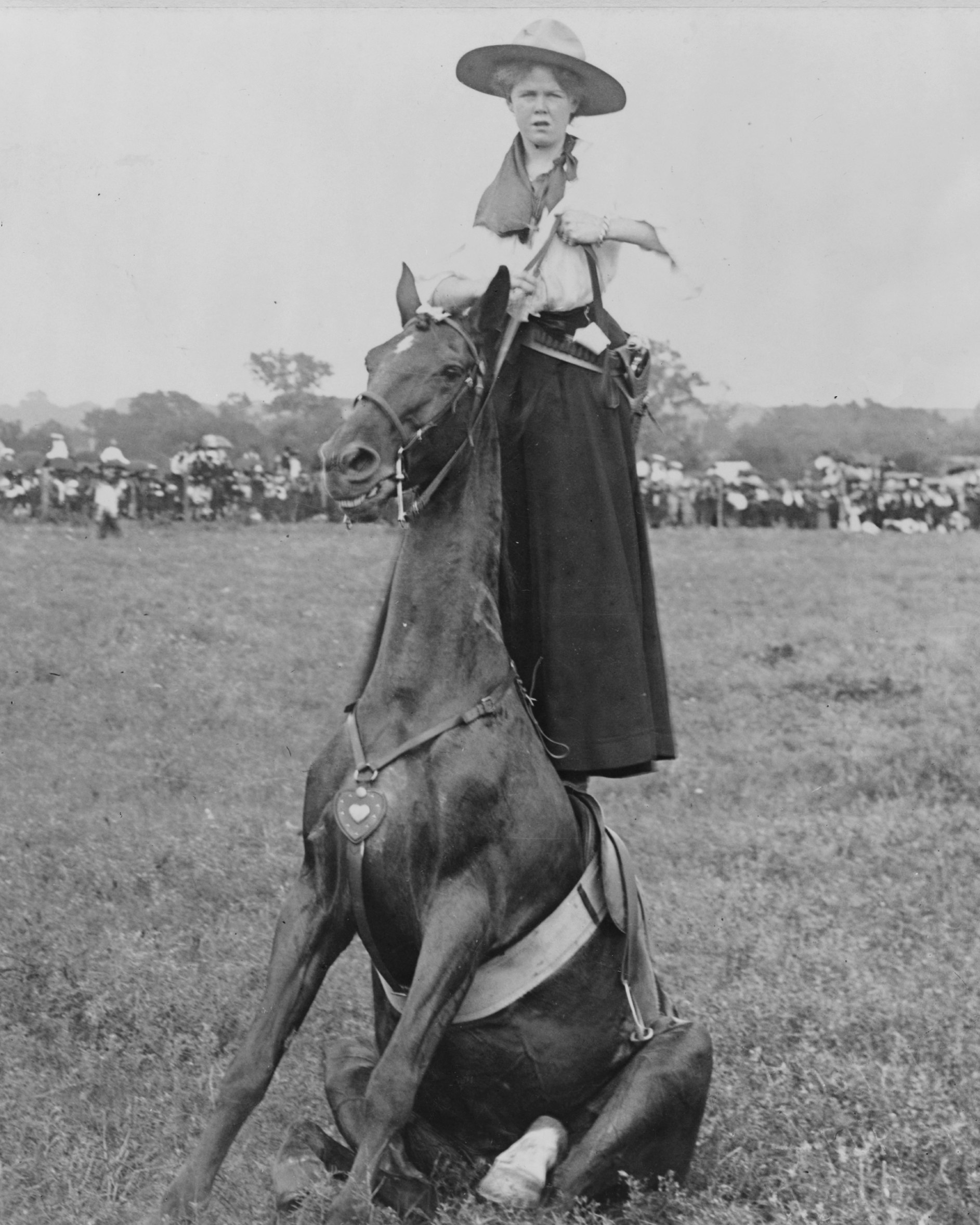 Title: Lucille Mullhall at 101 Ranche / view by Dedrick. Abstract/medium: 1 photographic print (postcard).